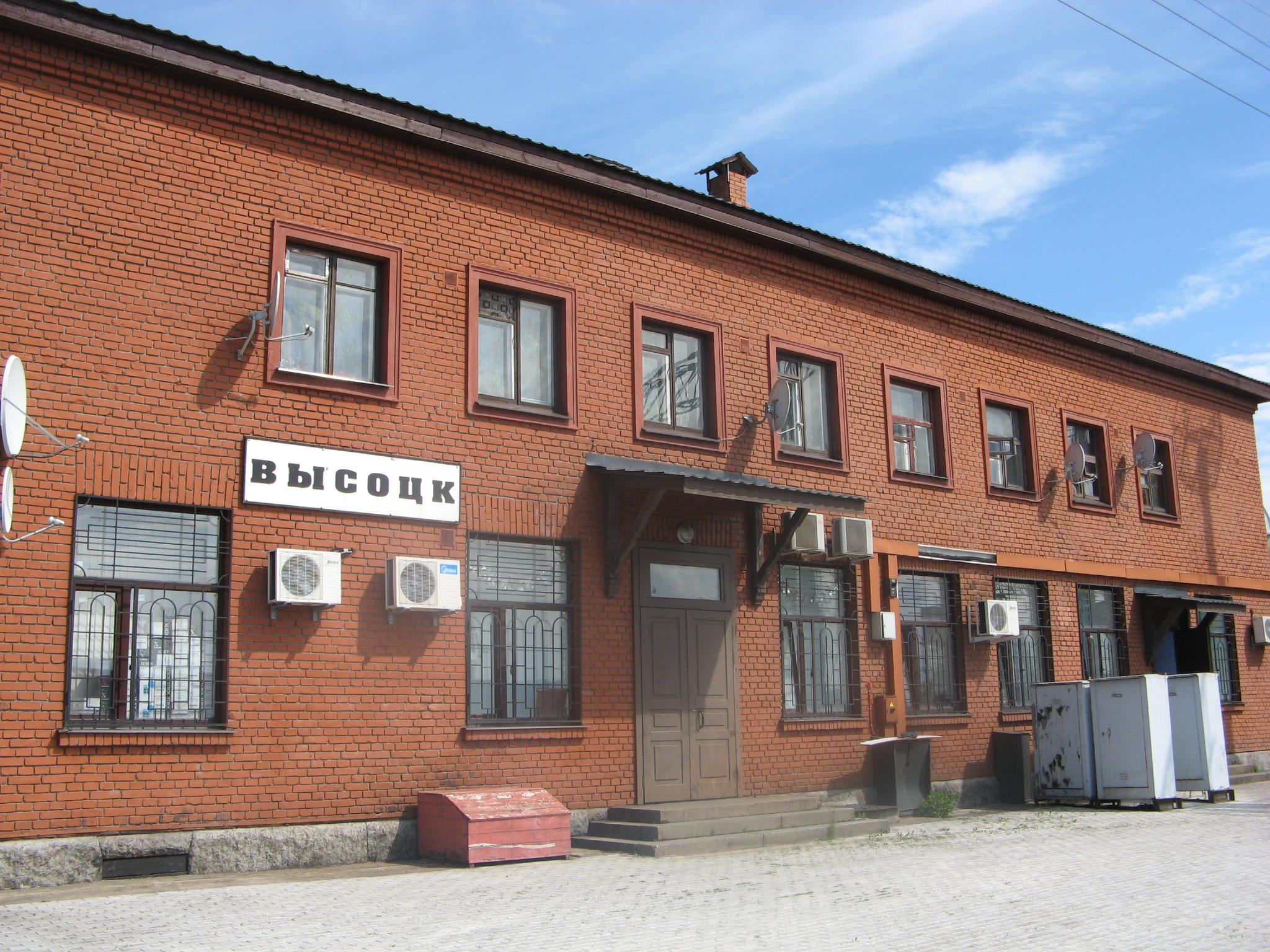 Vysotsk railway station, October Railway. Vyborg rayon, Leningrad region, Russia.